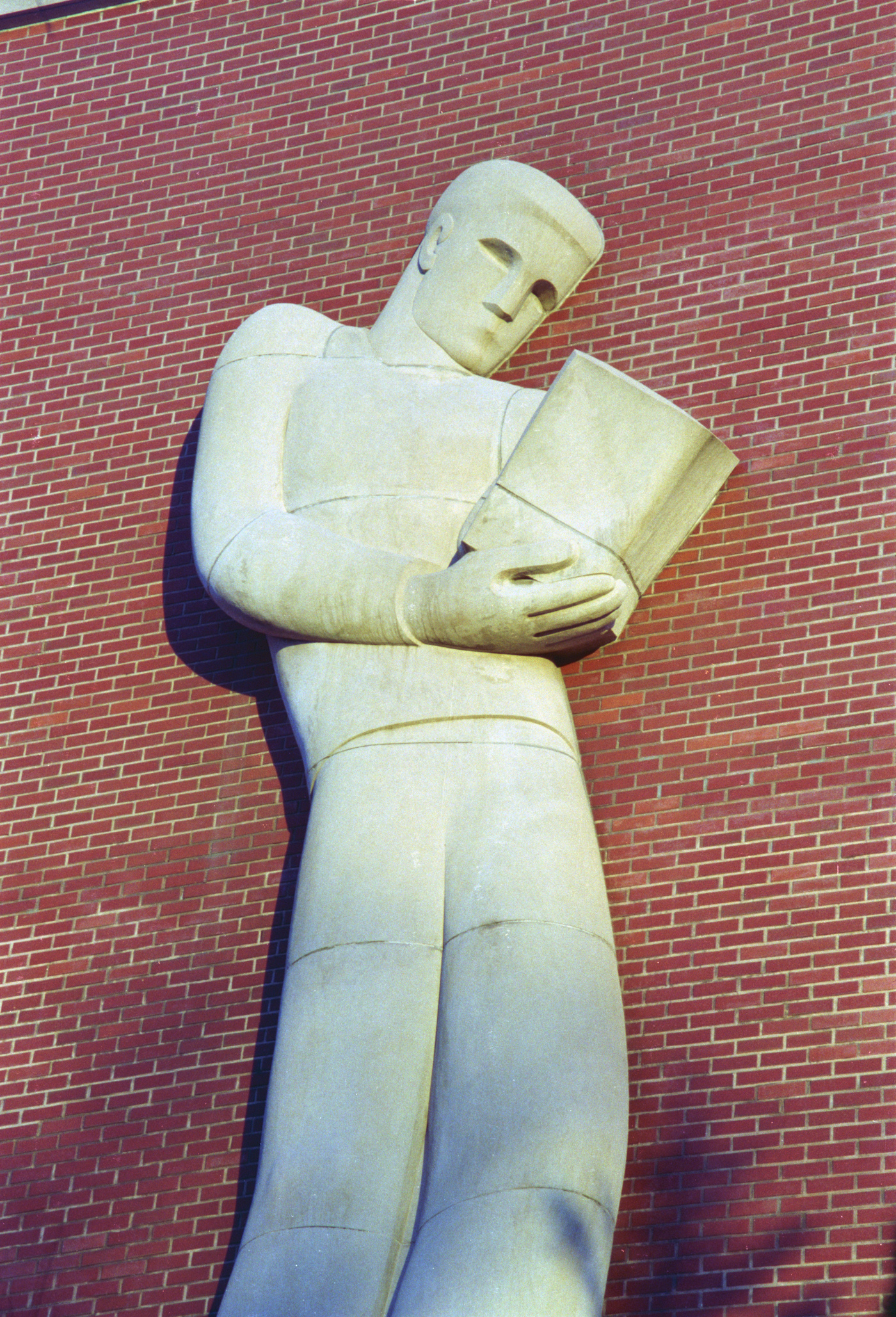 00-17-24: holland library artwork